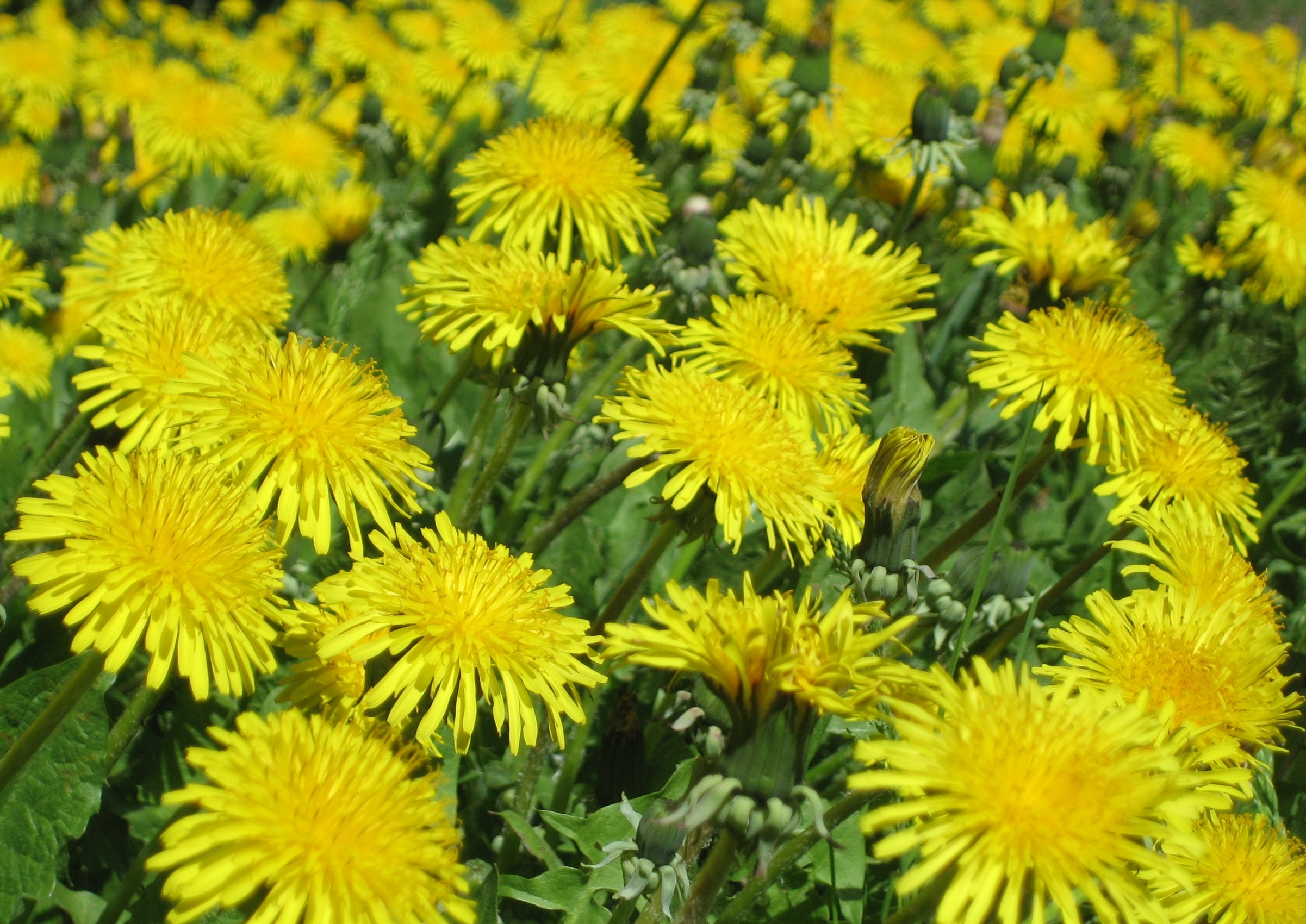 Common dandelions (Taraxacum officinale) growing on a field in Oulu, Finland.